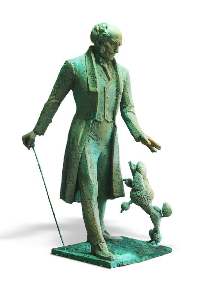 Sculpture of Arthur Schopenhauer 2m 10cm. Made in 2014 by sculptor Gennady Jerszow, 2014